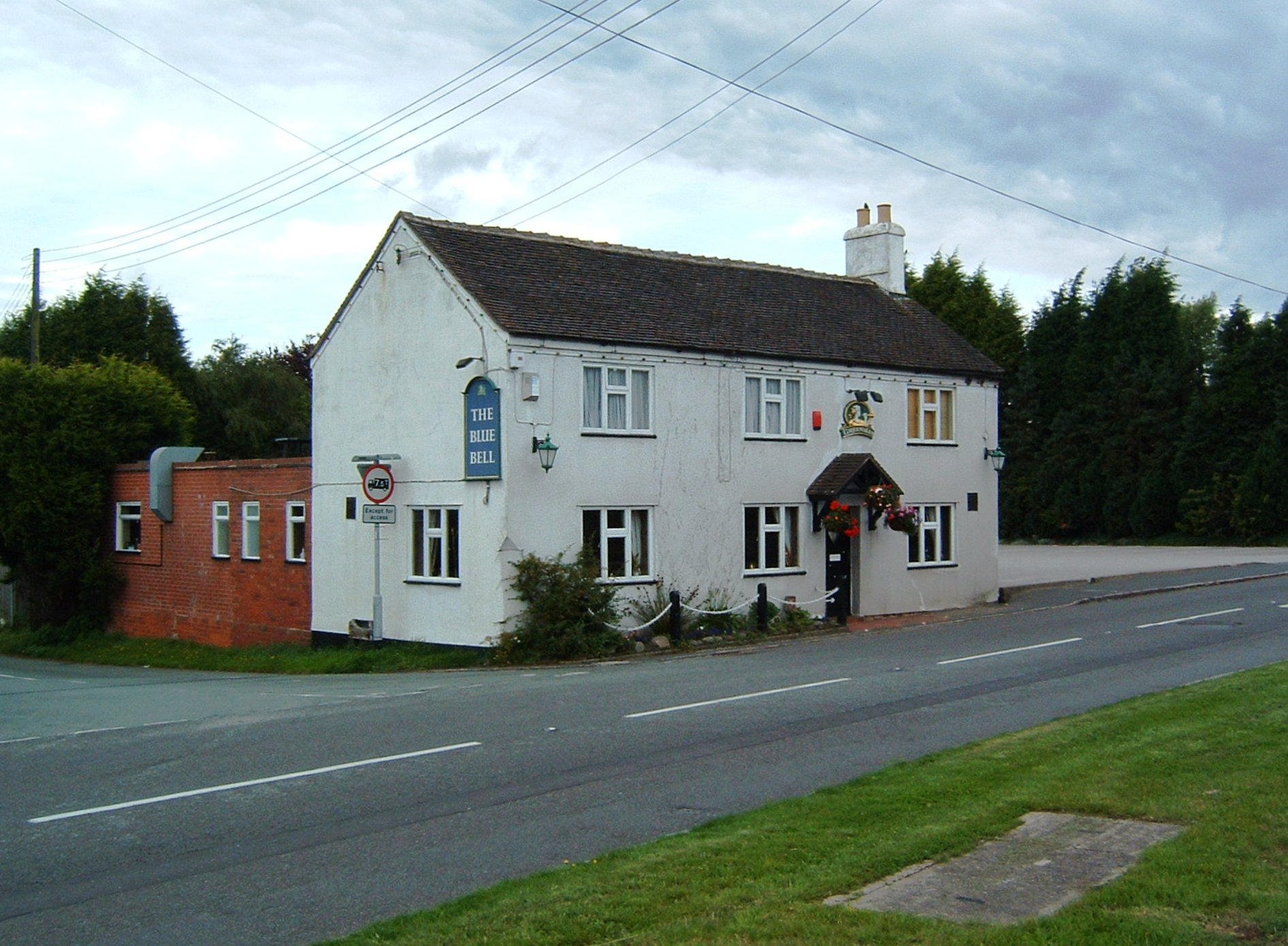 The Blue Bell, a pub in Wrinehill, north-west of Staffordshire on the A531 road